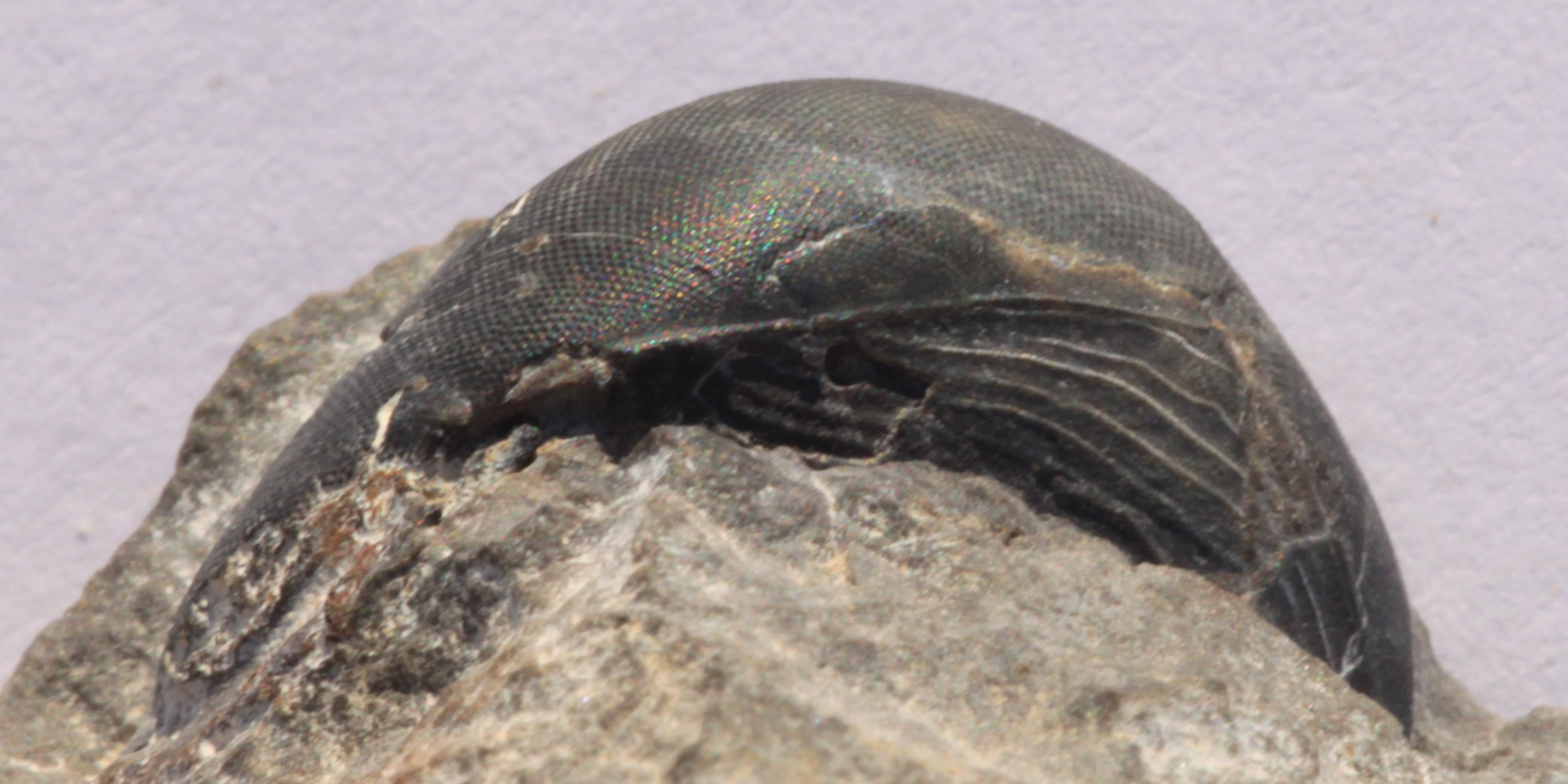 The fused, holochroal eyes of a Symphysops sp. trilobite, Order Asaphida, Family Cyclopygidae, visual surface 30mm broad following the curve of the eyes, and 10 mm high, oblique view, collected near Zagora, Morocco